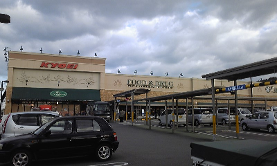 This is a picture of "KYOEI Ishii" I took.